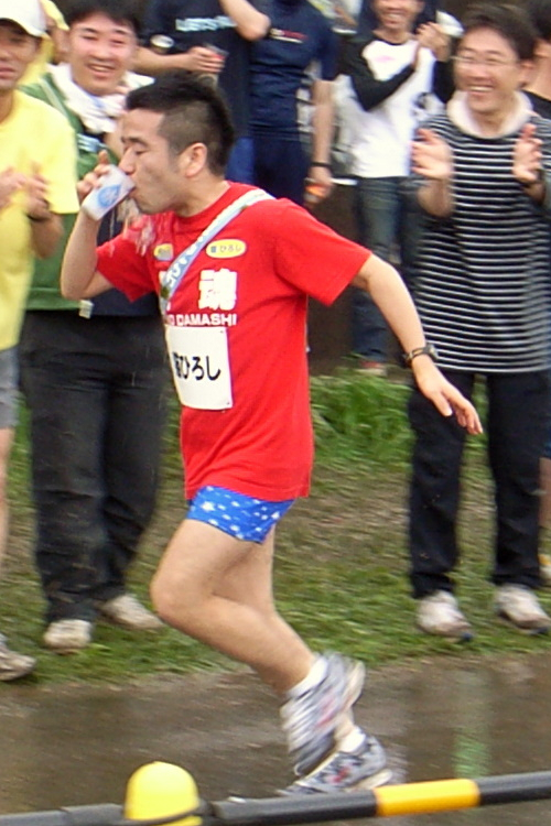 Japanese comedian Neko Hiroshi running in a marathon race in Toda, Saitama